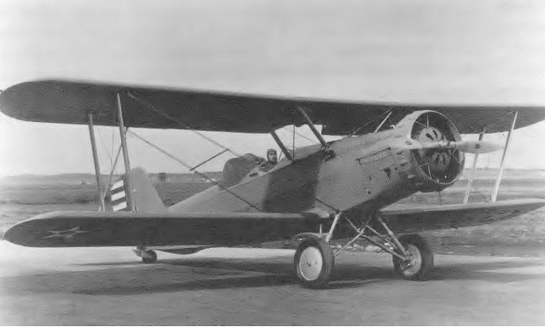 An early model Douglas BT-2 (O-38) equipped with a flying blind hood at Randolph Field, Texas